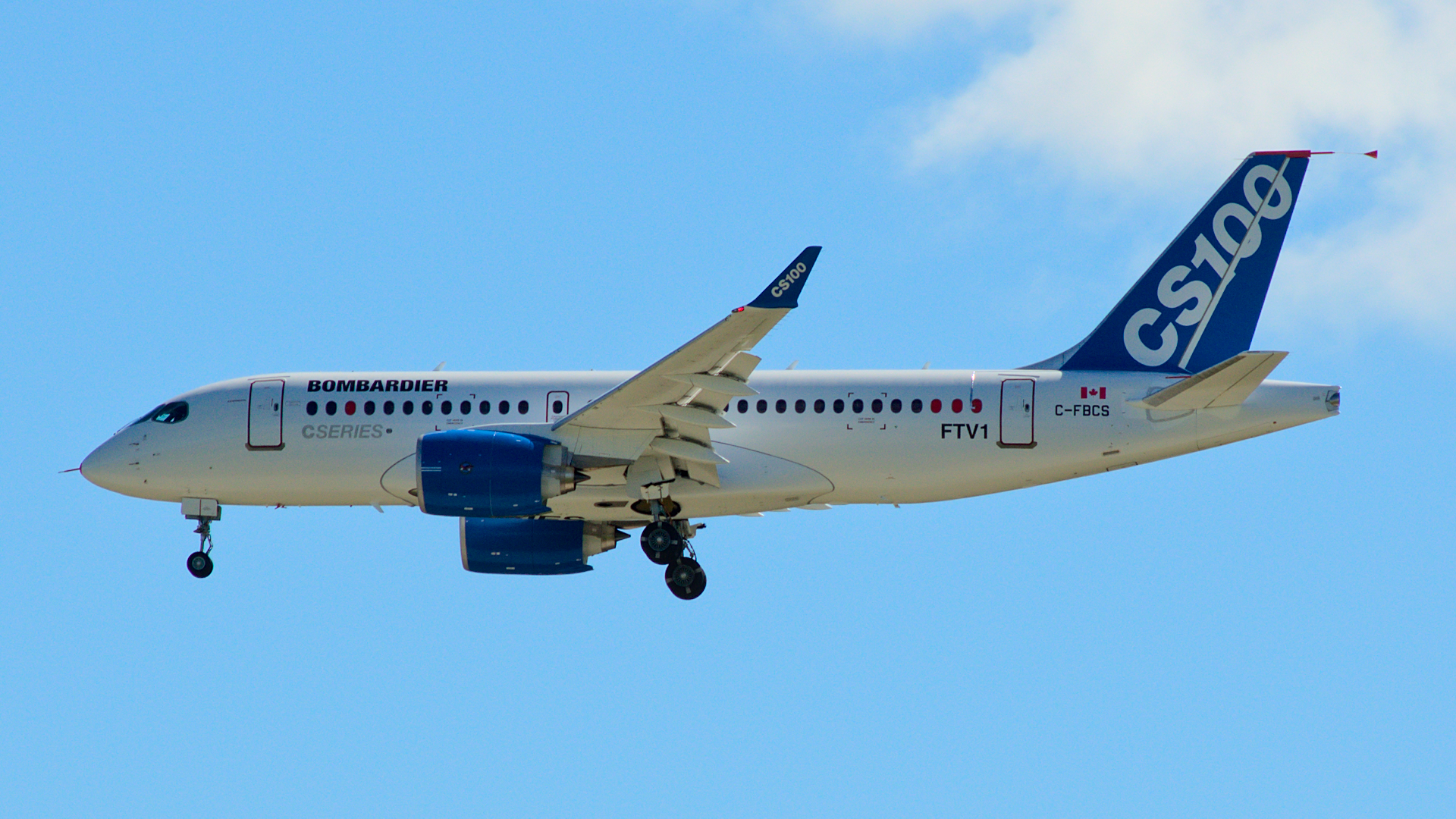 Bombardier CSeries CS100 FTV-1 Fly-By the 06 runway at Mirabel, before landing